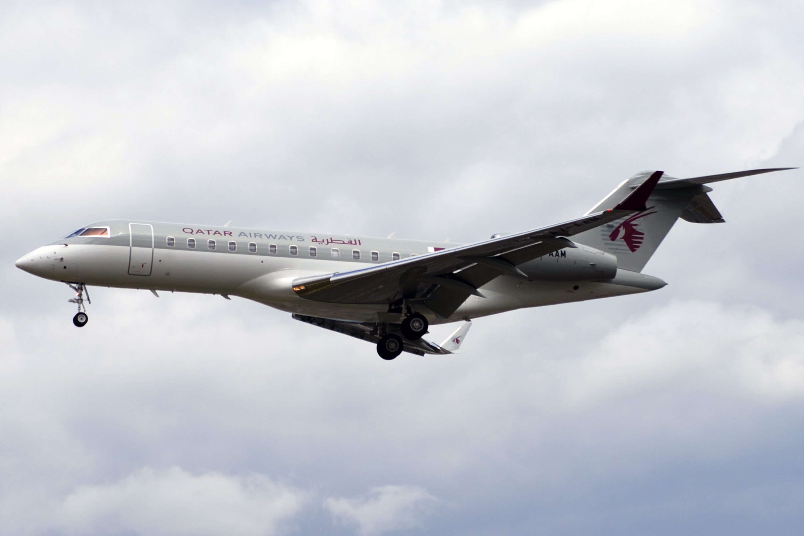 Global Express,Myrtle Avenue,July 2008